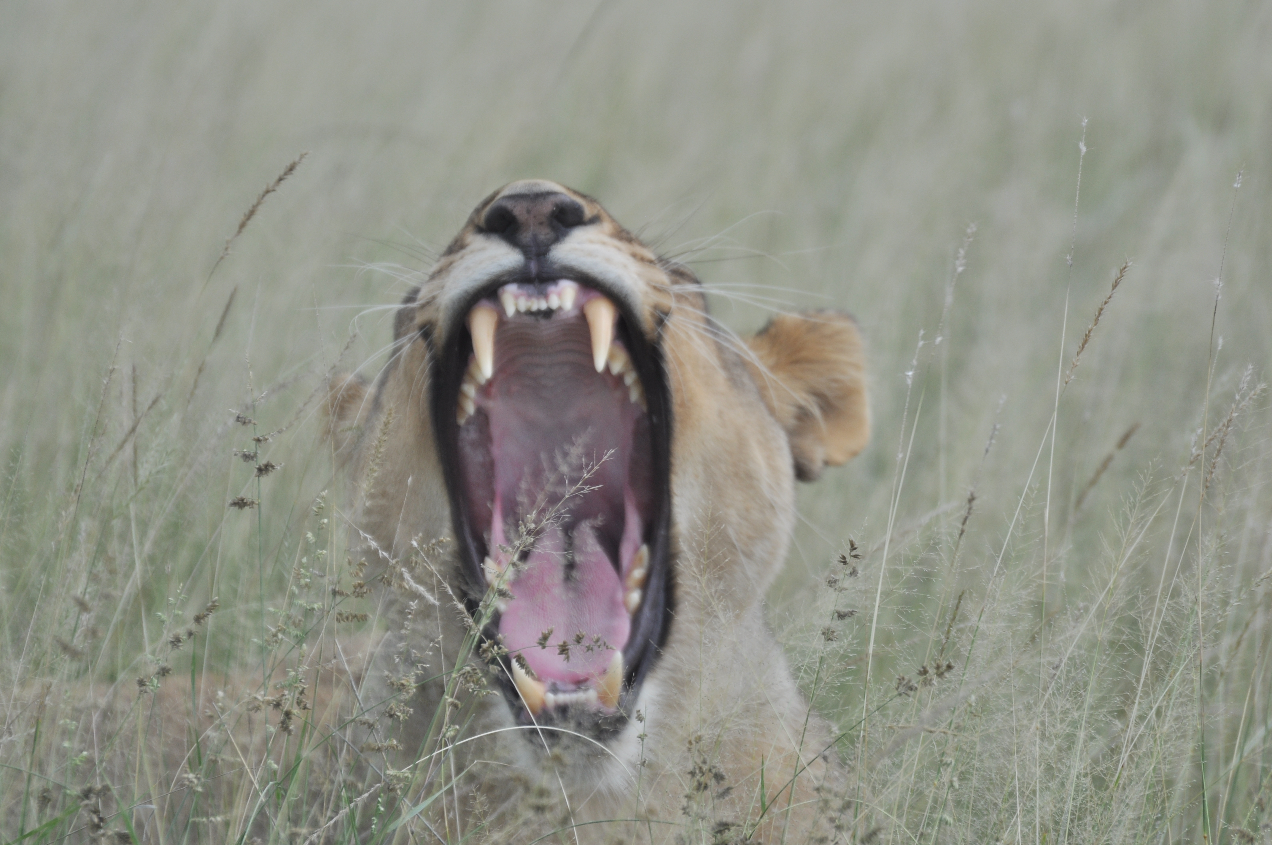 Female lion showing it's teeth in Namibia.